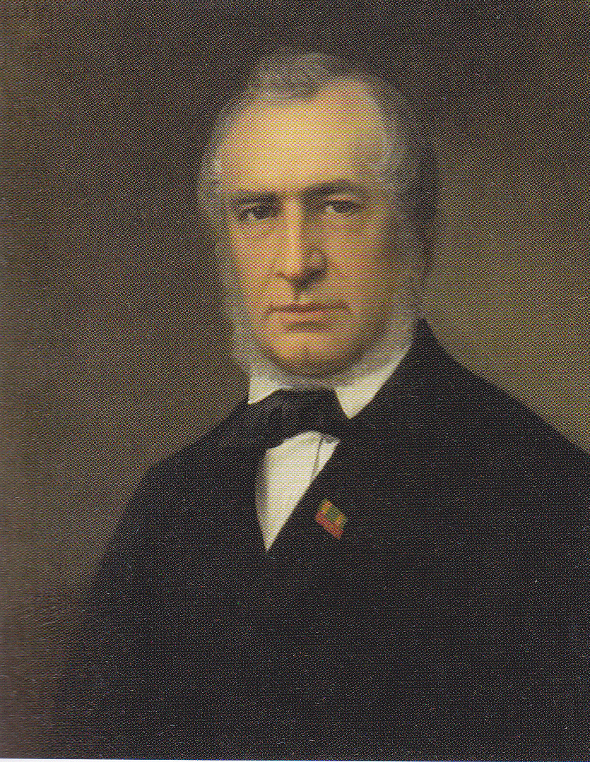 Dutch pharmacist and author S.J. van den Bergh (1814-1868), painted by Bastiaan de Poorter (1813-1888). Location 2015: Nederlands Letterkundig Museum, The Hague (NL)